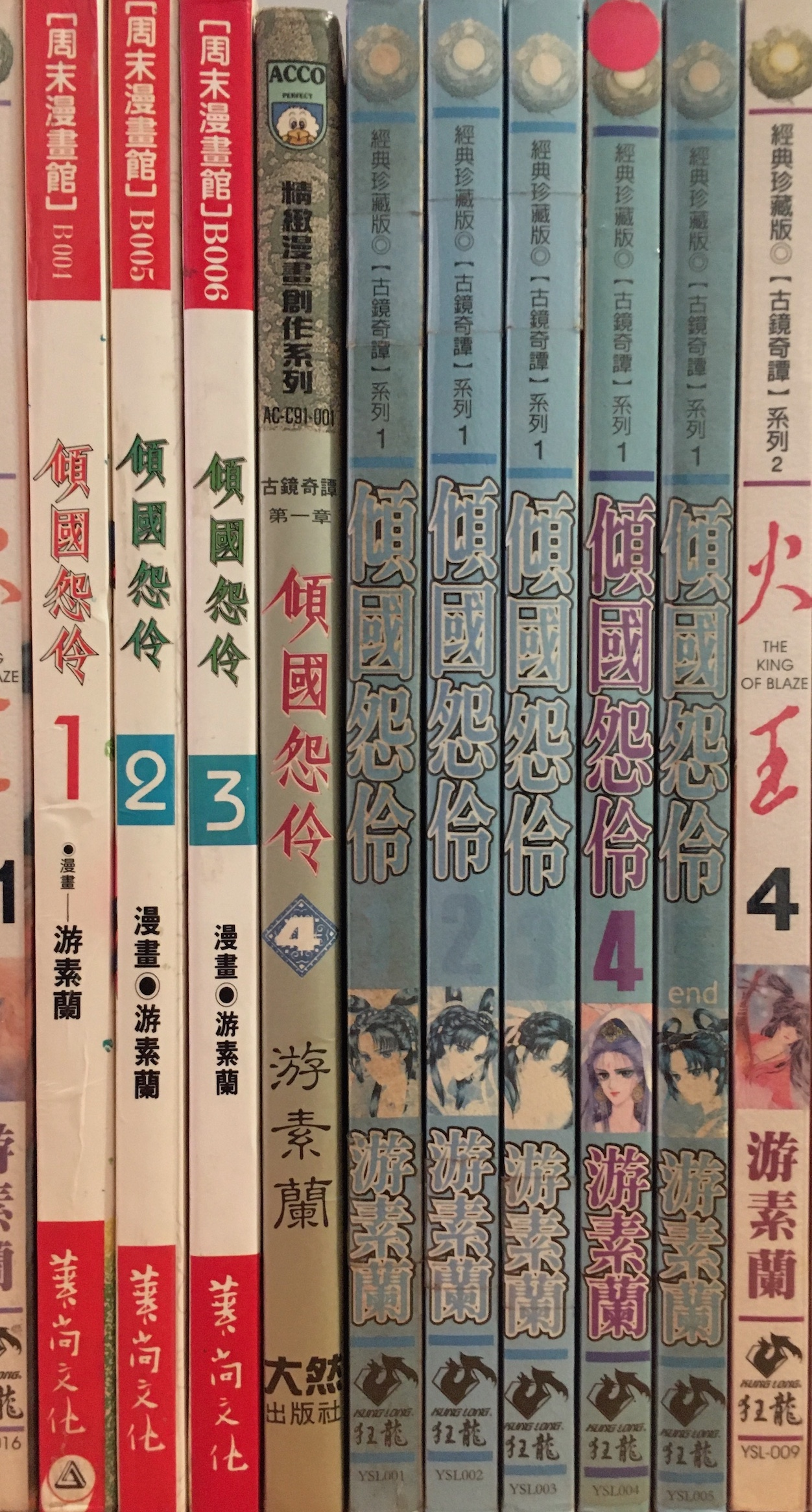 Melancholic Princess, manhua (comic) created by the Taiwanese comic artist You Su-lan, 1st installment of The Seven Mirrors’ Stories series. From left to right: 3-volume first edition published by Hua Shang Culture, volume 4 published by Da Ran Culture, and 5-volume new edition published by Kung-Long International Publishing Co.